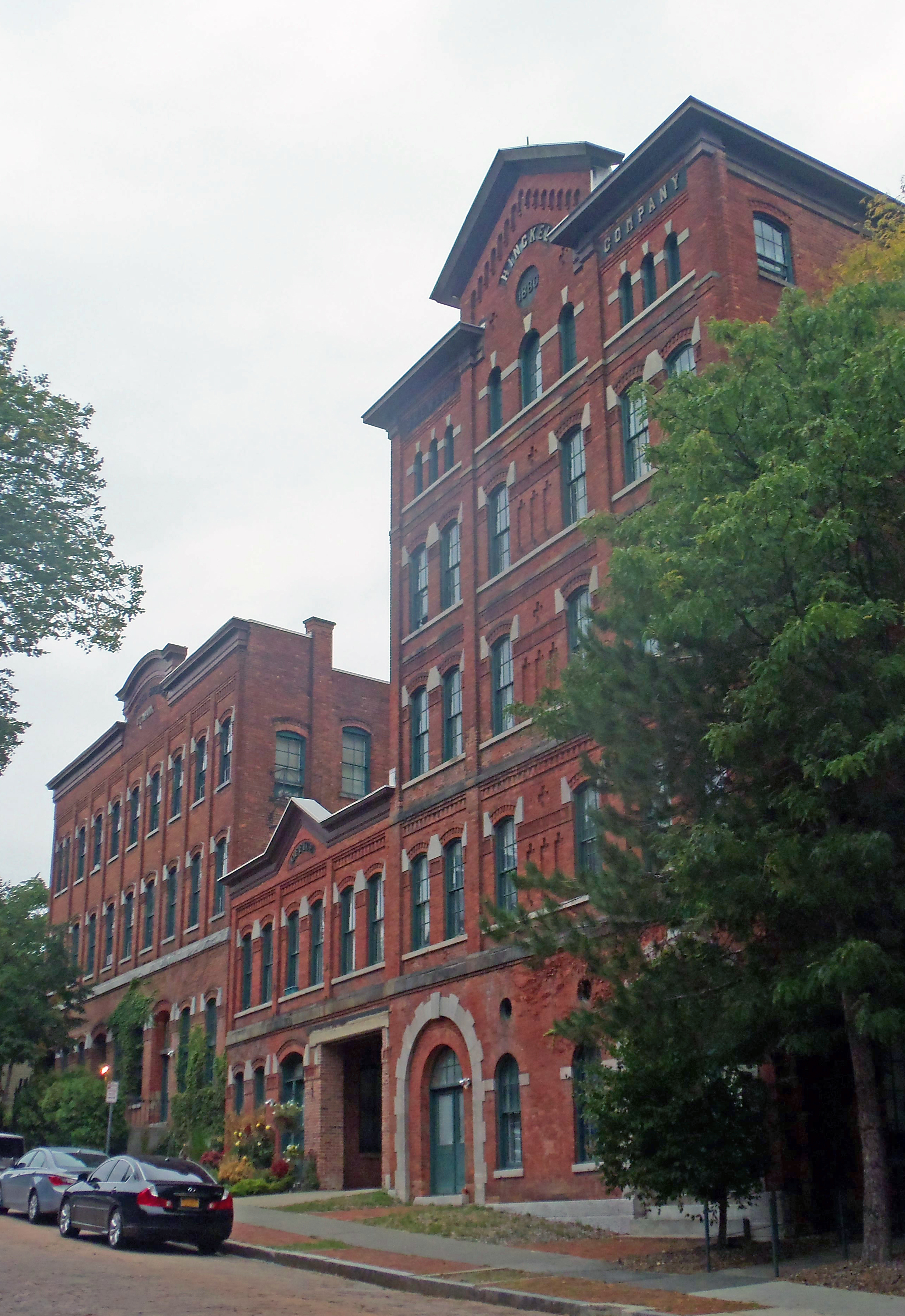 Old Hinckel Brewery building, a contributing property to the Center Square/Hudson–Park Historic District, Albany, NY, USA